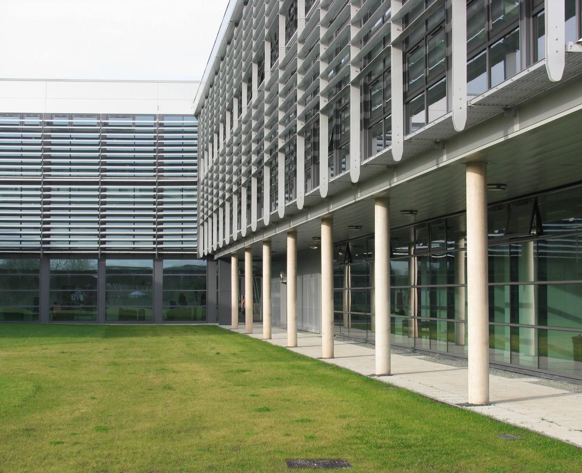 University of Derby - Markeaton Street campus, Derby, England.